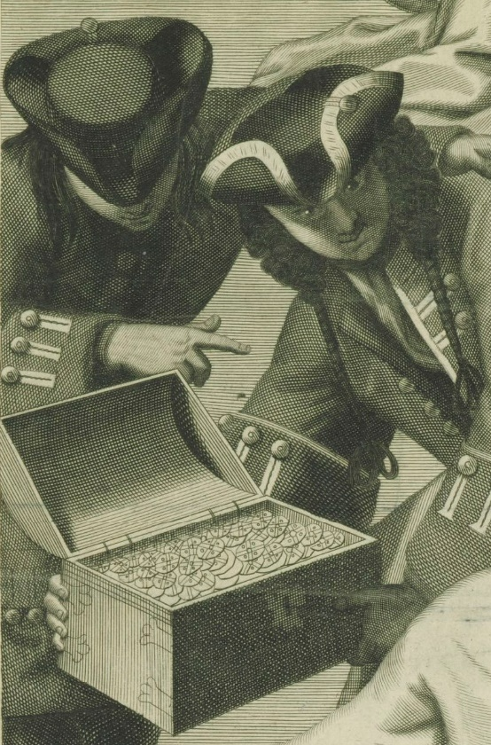 Two soldiers with a chest containing a treasure from the Spanish Empire (piastres or doubloons). Engraving published in 1698 after the looting of Cartagena by the French the previous year. Detail of a royal almanac from 1698.